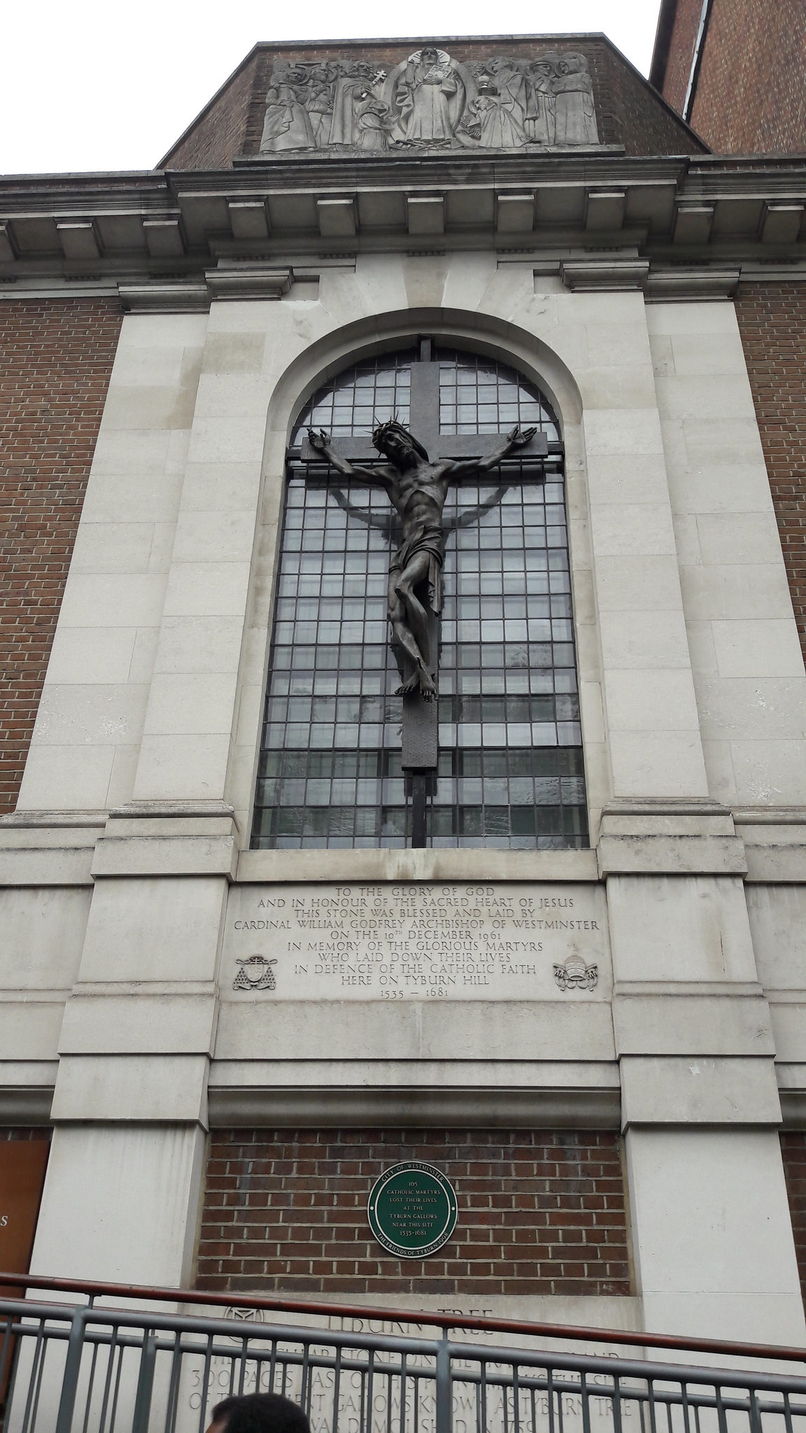 Tyburn Catholic Convent front, near Marble Arch, London